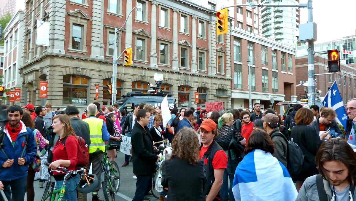 Rally and march in support of the Quebec student strike, at George Brown College (St. James campus) in Toronto on 5 Jun. 2012.